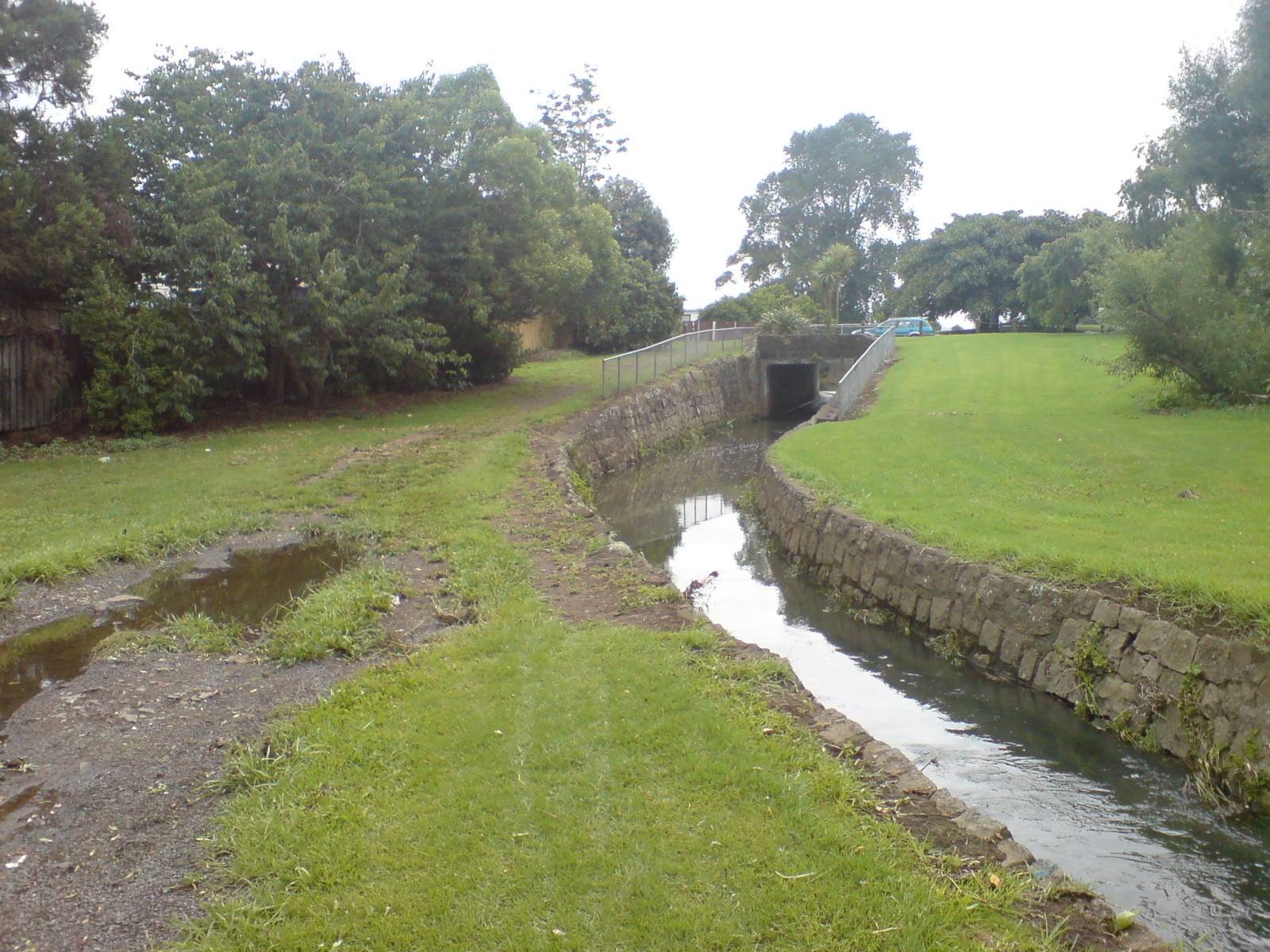 A very badly maintained walking path / gravel track at the north-eastern end of Alan Woods Reserve / Hendon Park in Auckland, New Zealand. Looking east into Underwood Reserve.